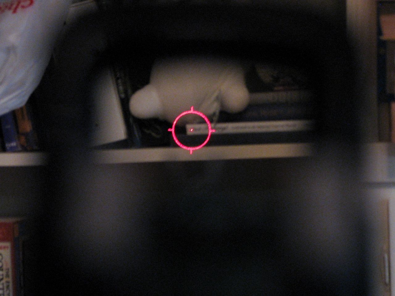 The sighting reticle on an EOTech 512 holographic weapons sight